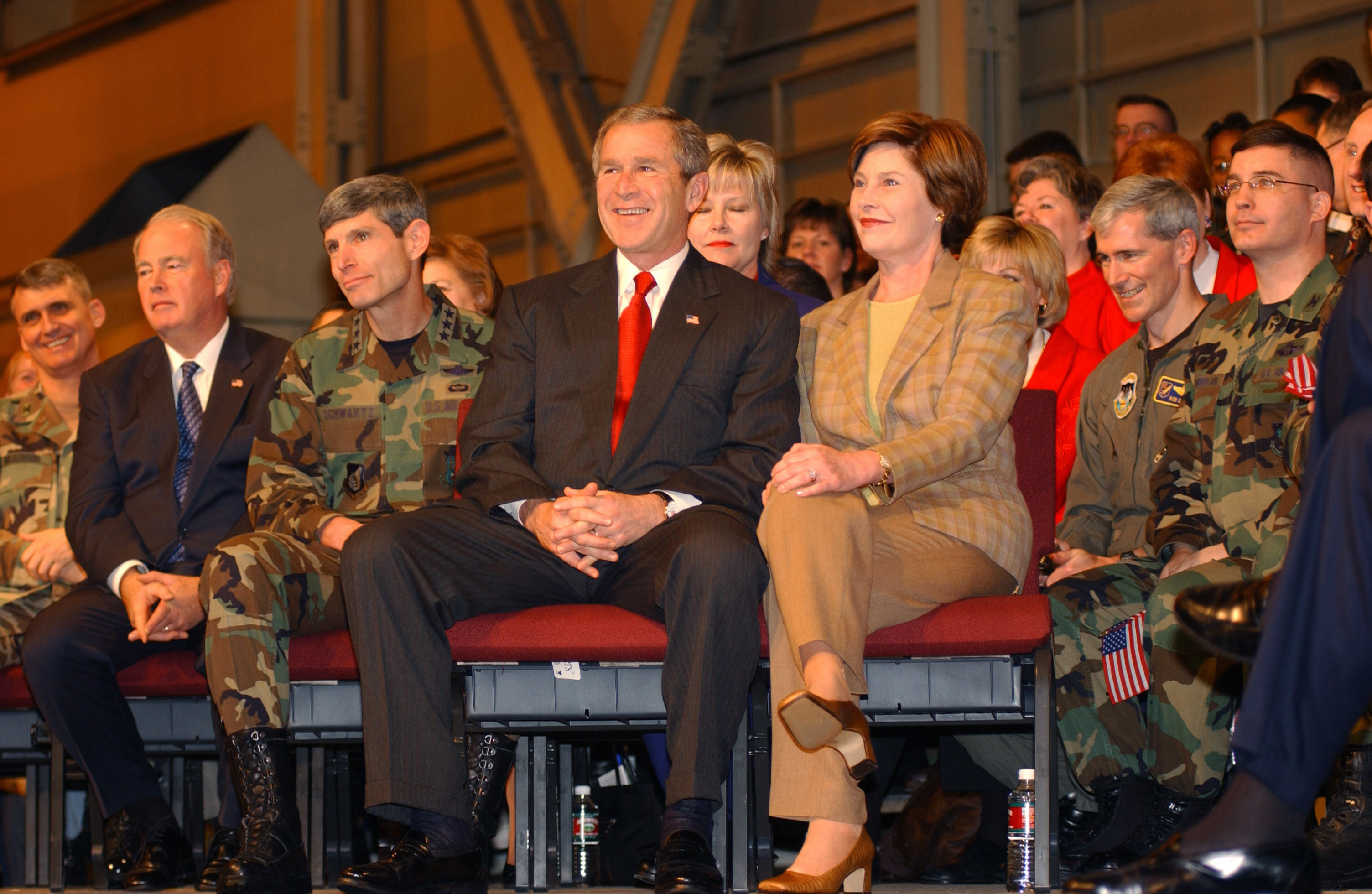 US President and Mrs. George W. Bush sit together on the stage before a full house in Hangar 3 at Elmendorf Air Force Base, Alaska. On his way to Japan, he stopped at Elmendorf FB, Alaska, where he spoke to an enthusiastic full house in the hanger. The President voiced his pride in the US forces; "Im honored to be in a place where people understand the need for sacrifice and patriotism," said the President. He also spoke about the role of Elmendorf FB and laska in Operation NOBLE EGLE and the war against terrorism. To the Presidents left sit US Senator Frank H. Murkowski (R-K) (left), and Lieutenant General Norton . Schwartz, USF, Commander, laskan Command, laskan North merican..., 2/16/2002